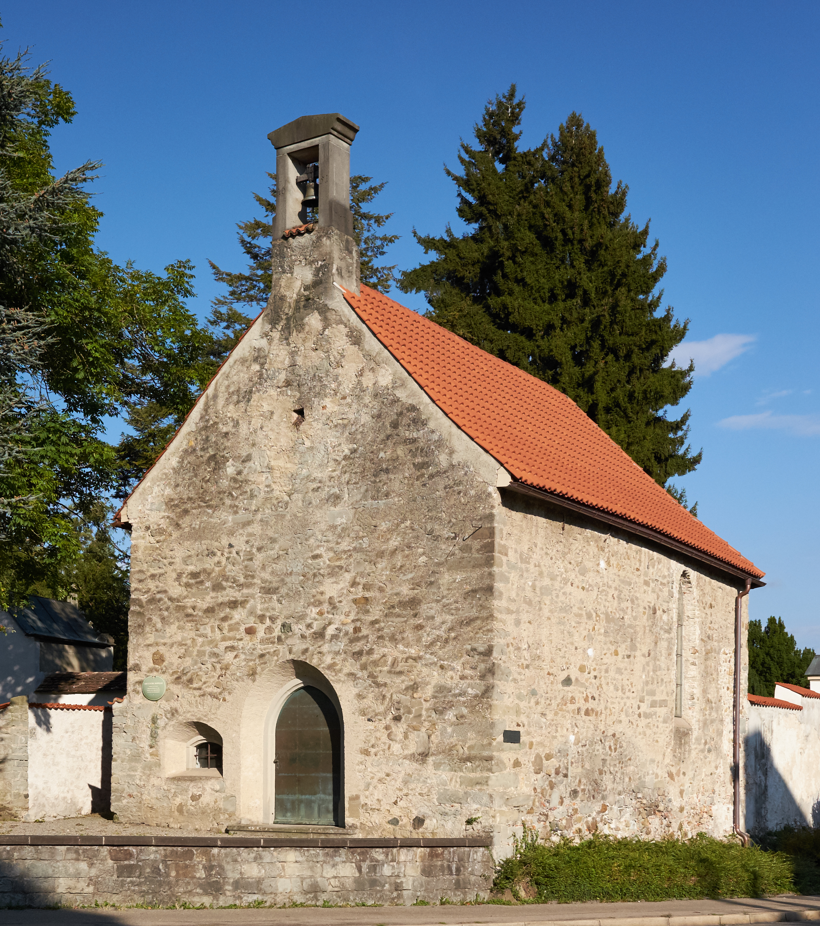 Chapel Krellsche Kapelle, Alter Friedhof Aeschach, Lindau-Aeschach, district Lindau, Bavaria, Germany